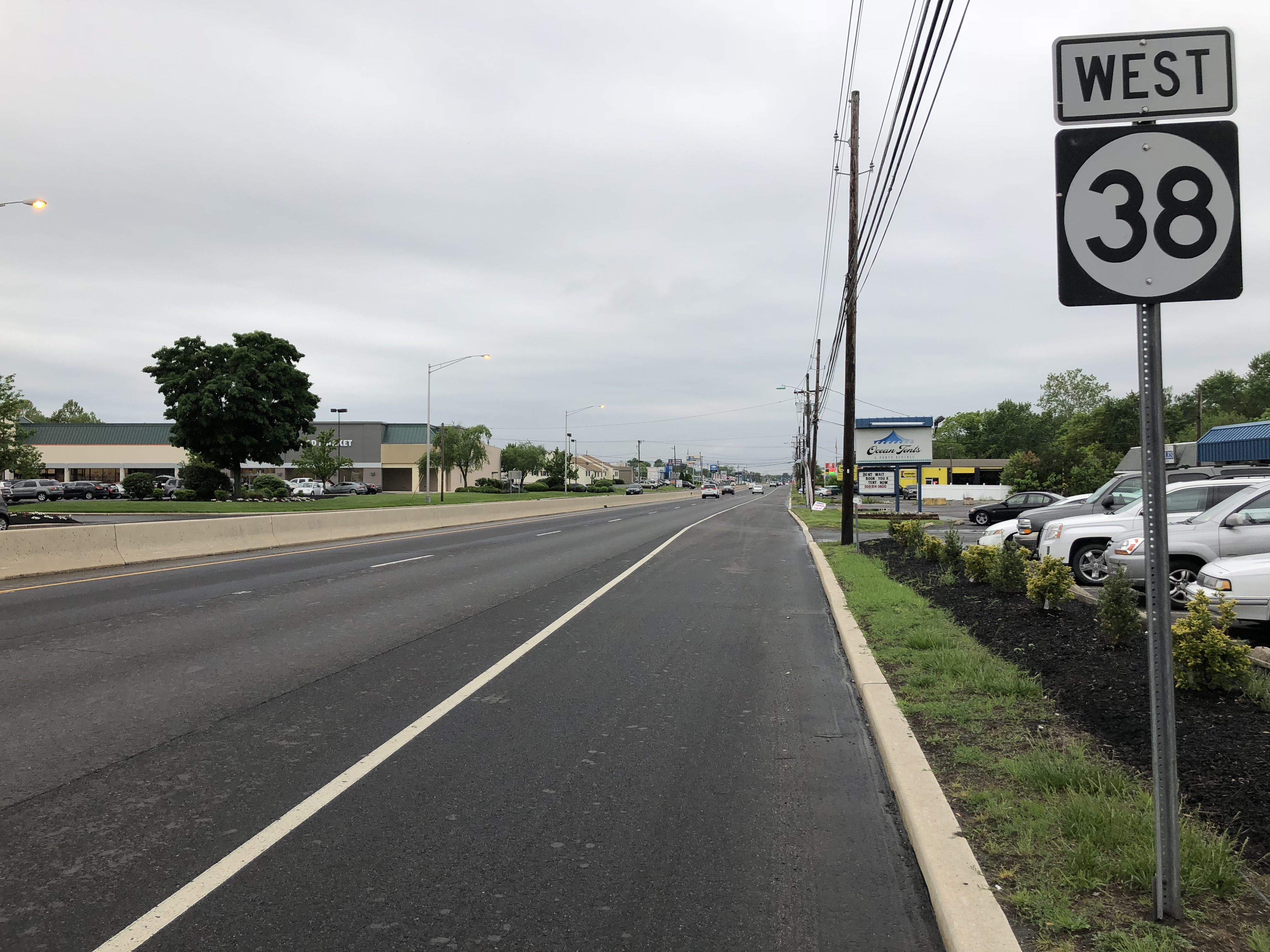 View west along New Jersey State Route 38 just west of Burlington County Route 612 (Pine Street/Eayrestown Road) in Lumberton Township, Burlington County, New Jersey